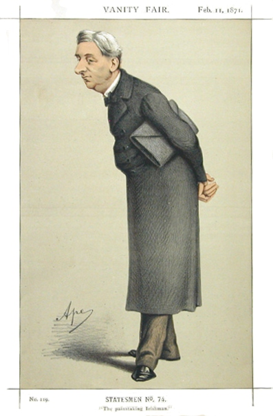 Caricature of William Monsell, 1st Baron Emly. Caption reads "The painstaking Irishman".